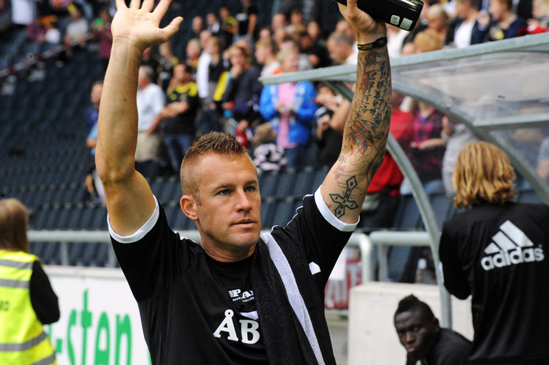 Lee Baxter